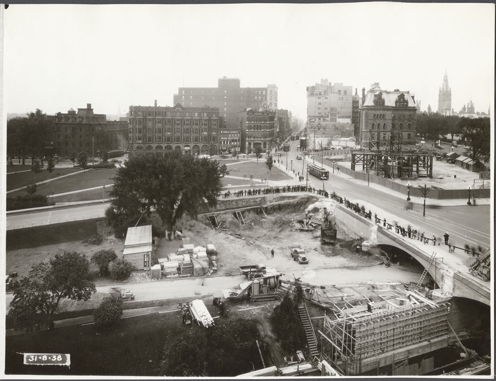 Title: "Ottawa". Album "Improvements to Confederation and widening of bridge structure Connaught Place, Ottawa"